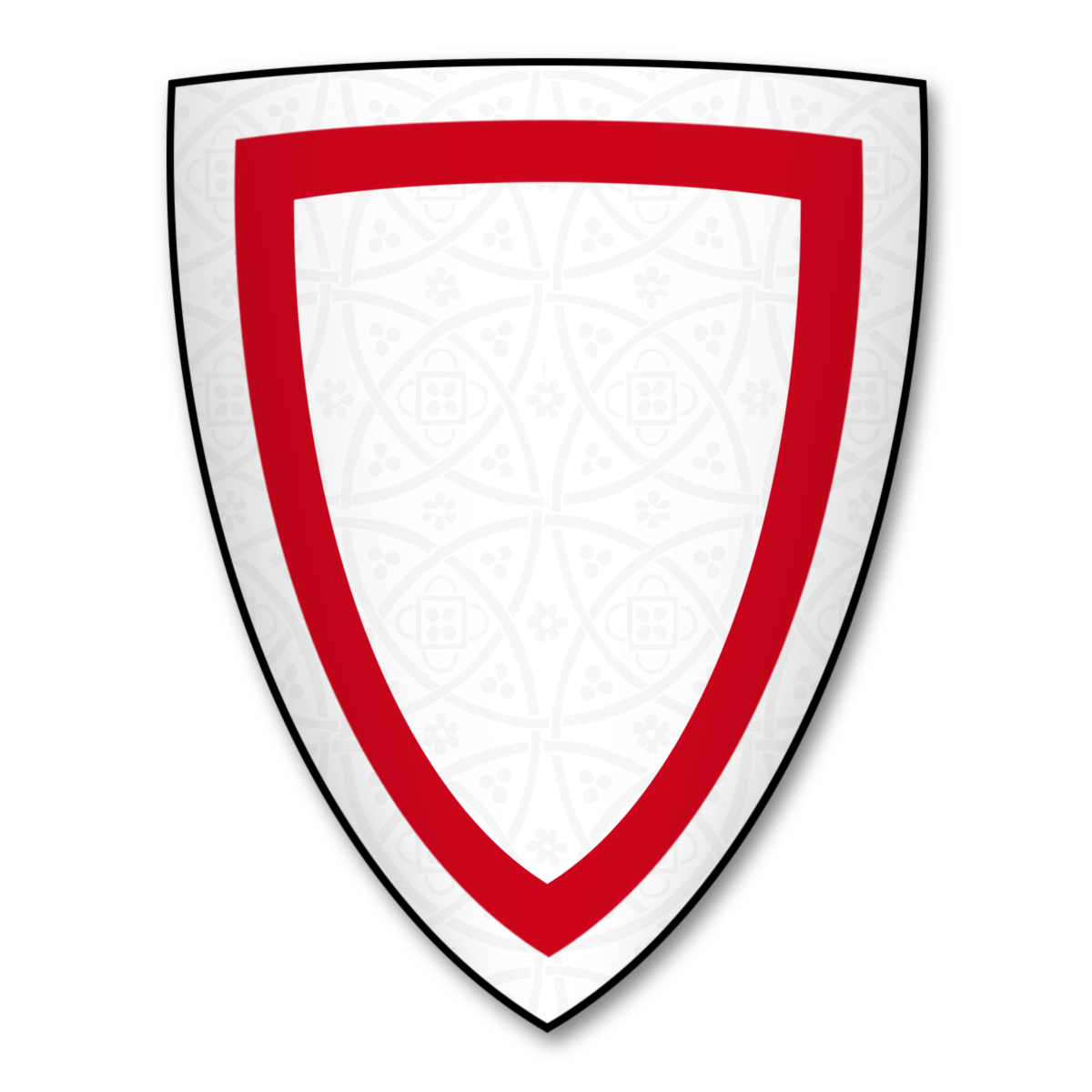 Coat of arms of Alexander de Balliol, as blazoned in the Caerlaverock Poem (K-089: "Allissandres de Bailloel") "Blanche banier avoit el champ Al rouge escu voidié du champ." Arms: Argent, an orle gules.